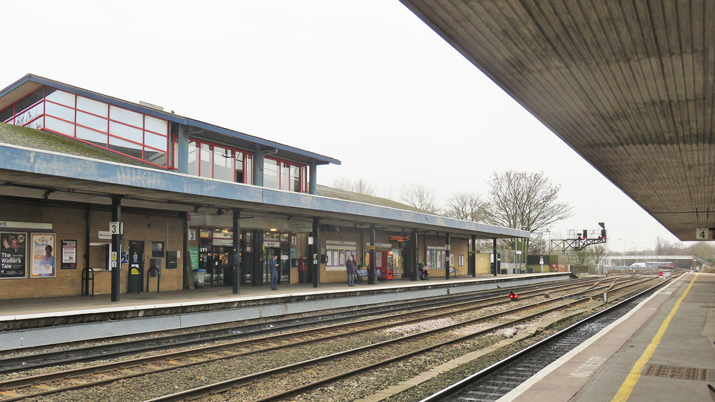 Oxford Train Station platforms.